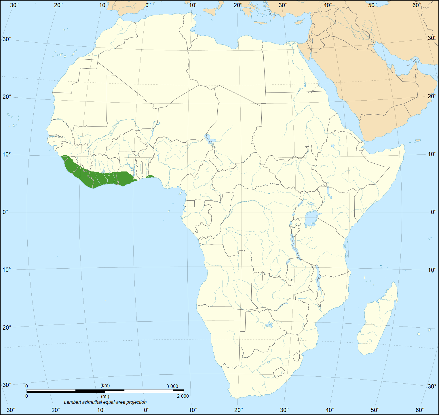 The geographical range of the Western green mamba in Africa. Data on rage is from (2018). "The medical threat of mamba envenoming in sub-Saharan Africa revealed by genus-wide analysis of venom composition, toxicity and antivenomics profiling of available antivenoms". Journal of Proteomics 172: 173–189. PMID 28843532. Base map is File:Africa map blank.svg